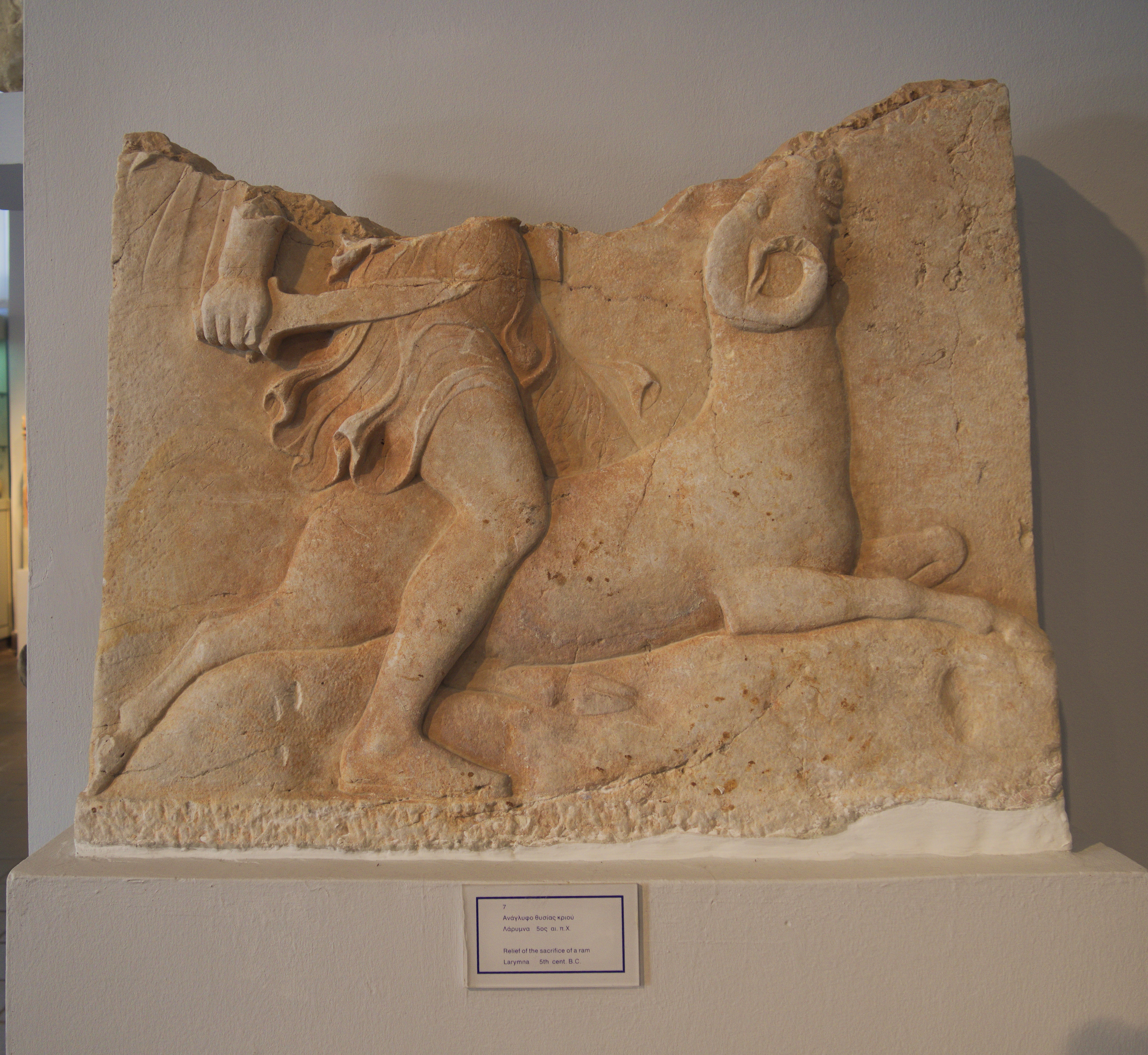 Relief of a sacrifice of a ram. 5th-century BC. From Larymna, Boetia, now exhibited at the Archaeological museum of Chalkida.